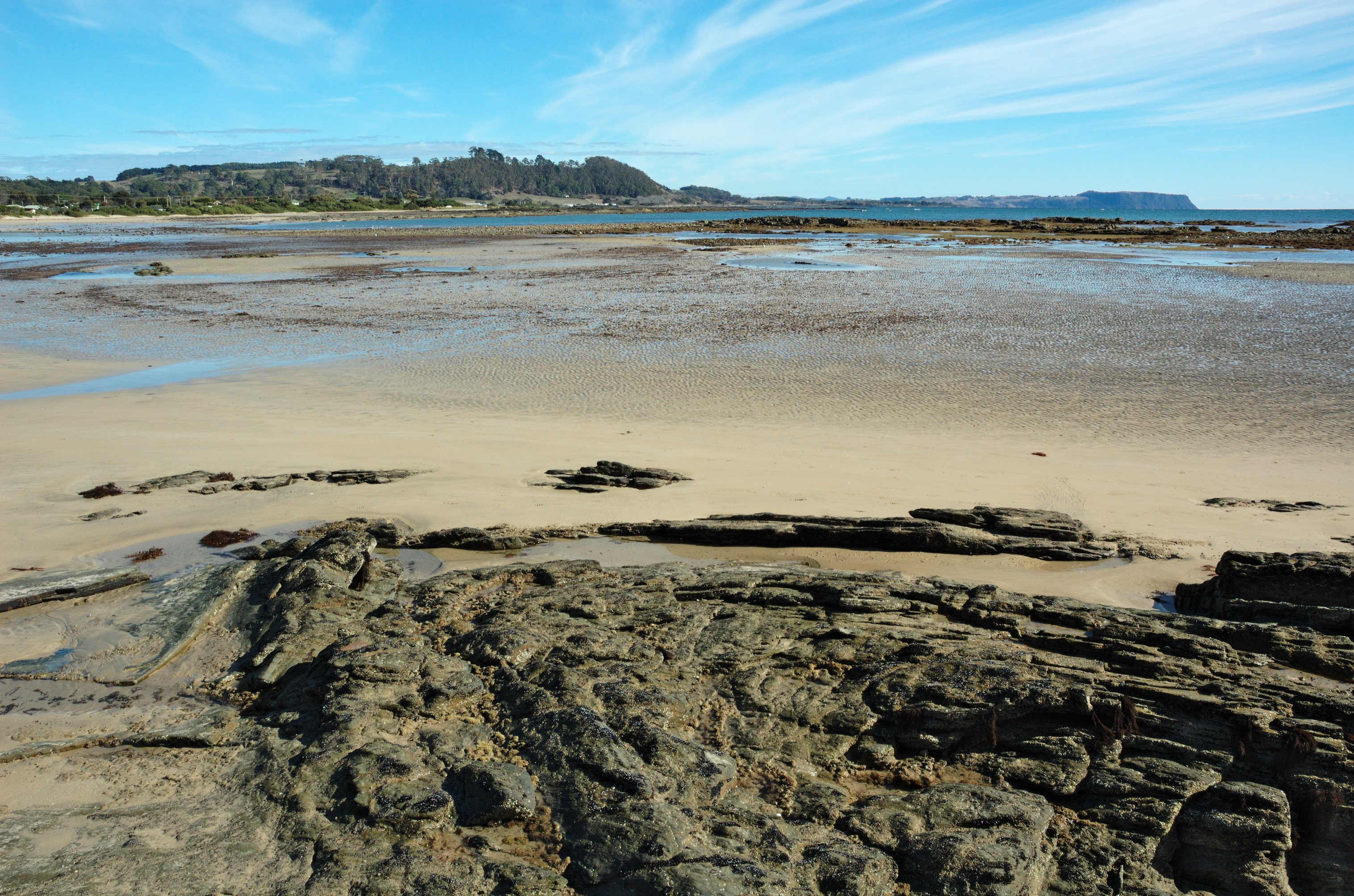 The beach at Somerset, Tasmania, looking west with Table Cape in the distance.